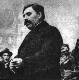 Sándor Garbai